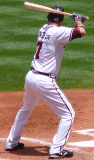 Picture I took on 5-10-07 23:12, 13 May 2007 . . Chrisjnelson . . 189×322 (114,736 bytes)